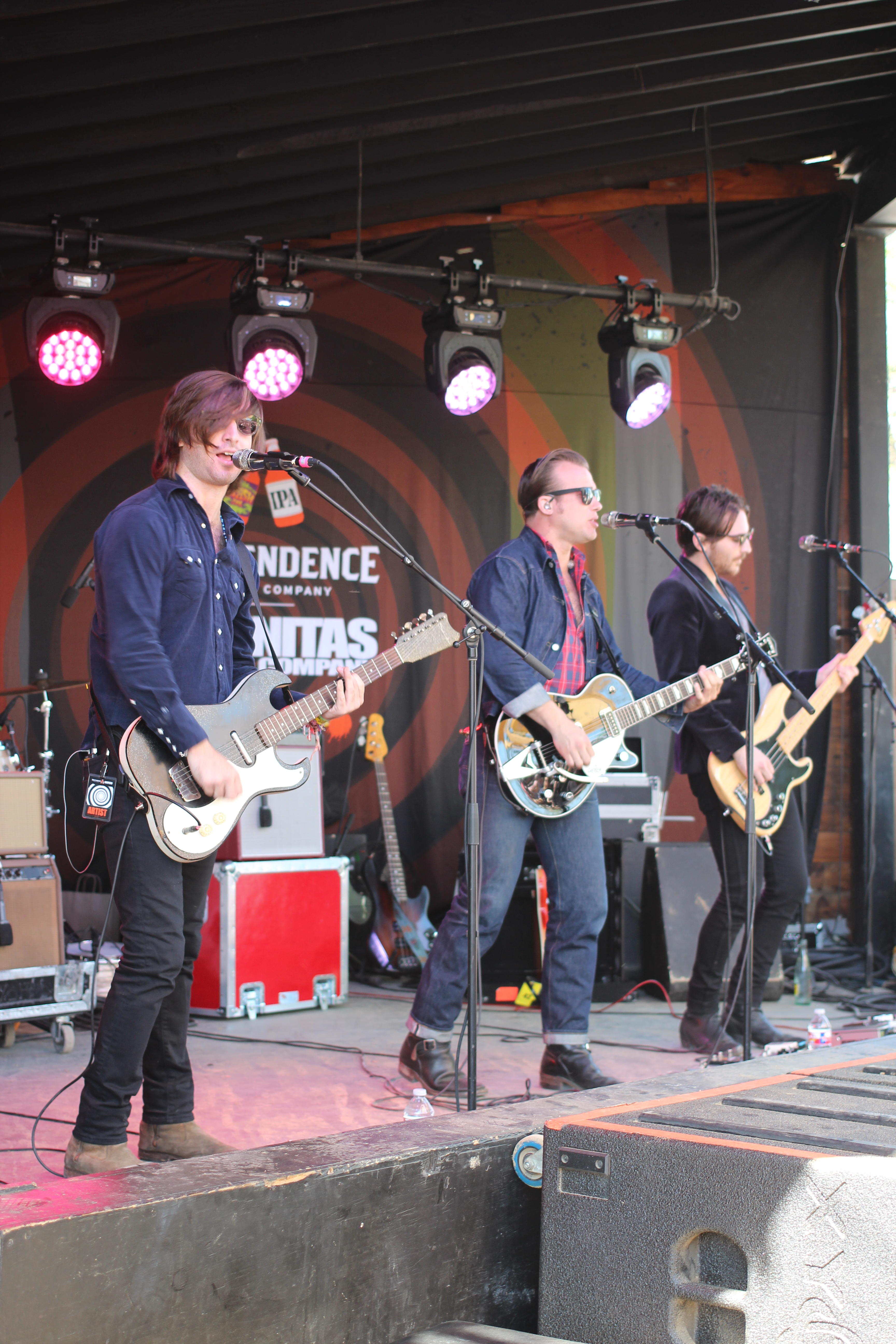 The Shelters